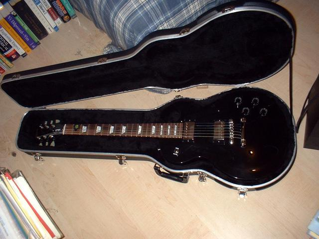 Les Paul in Case: 2003 Les Paul Studio in hard case.